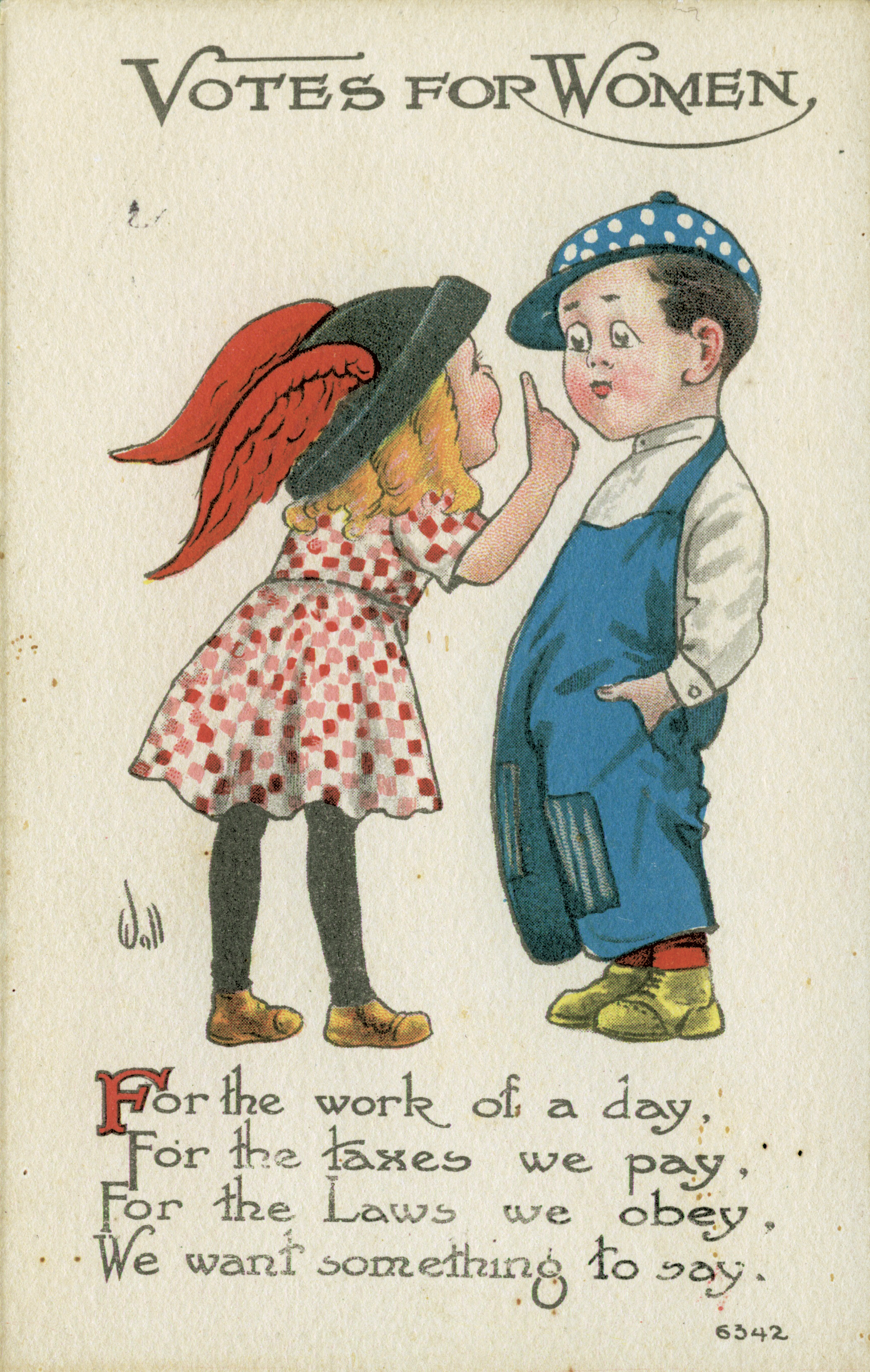 Postcard showing girl holding up finger to boy and poem: For the work of a day, for the taxes we pay, for the laws we obey, we want something to say.